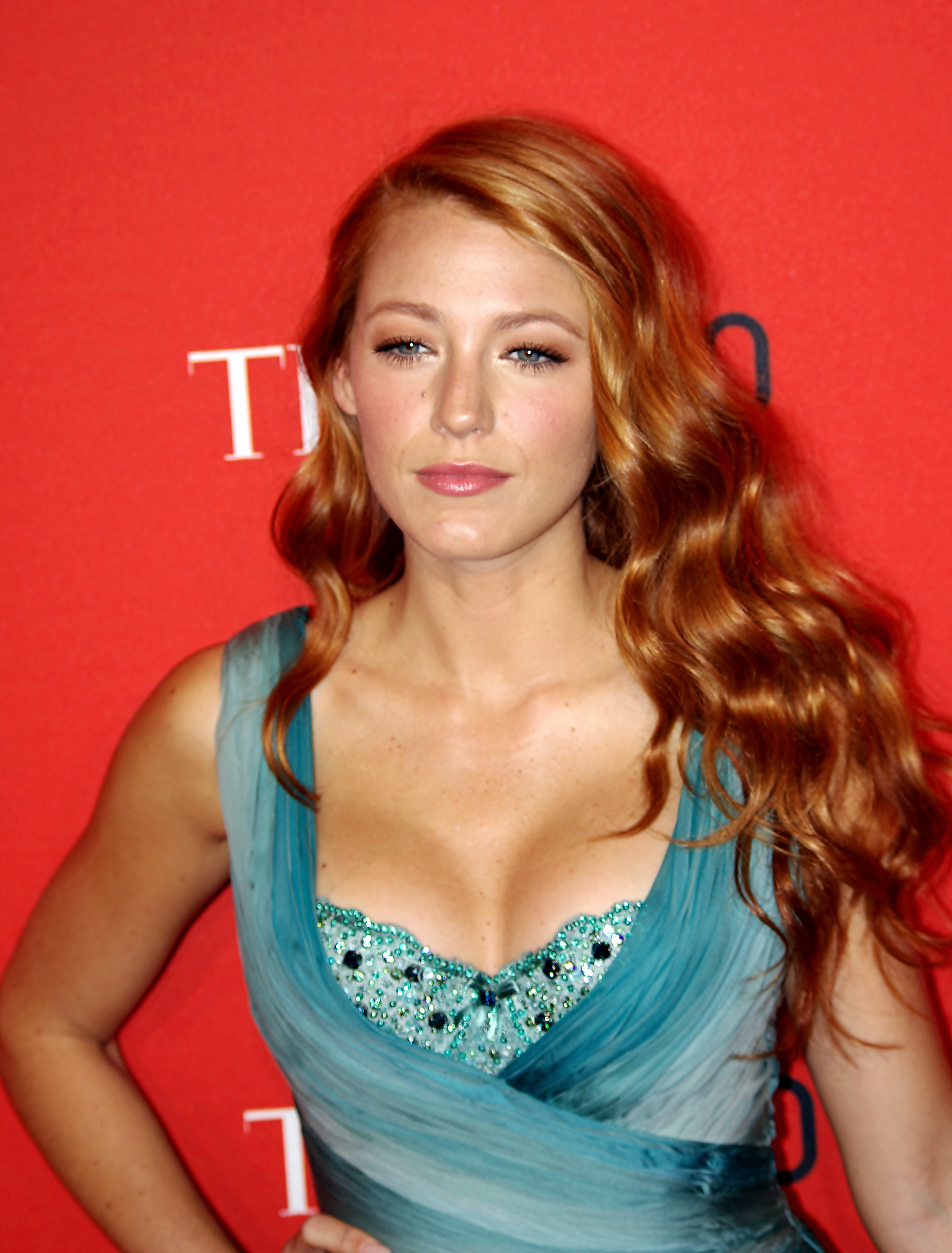 Blake Lively at the 2011 Time 100 gala.